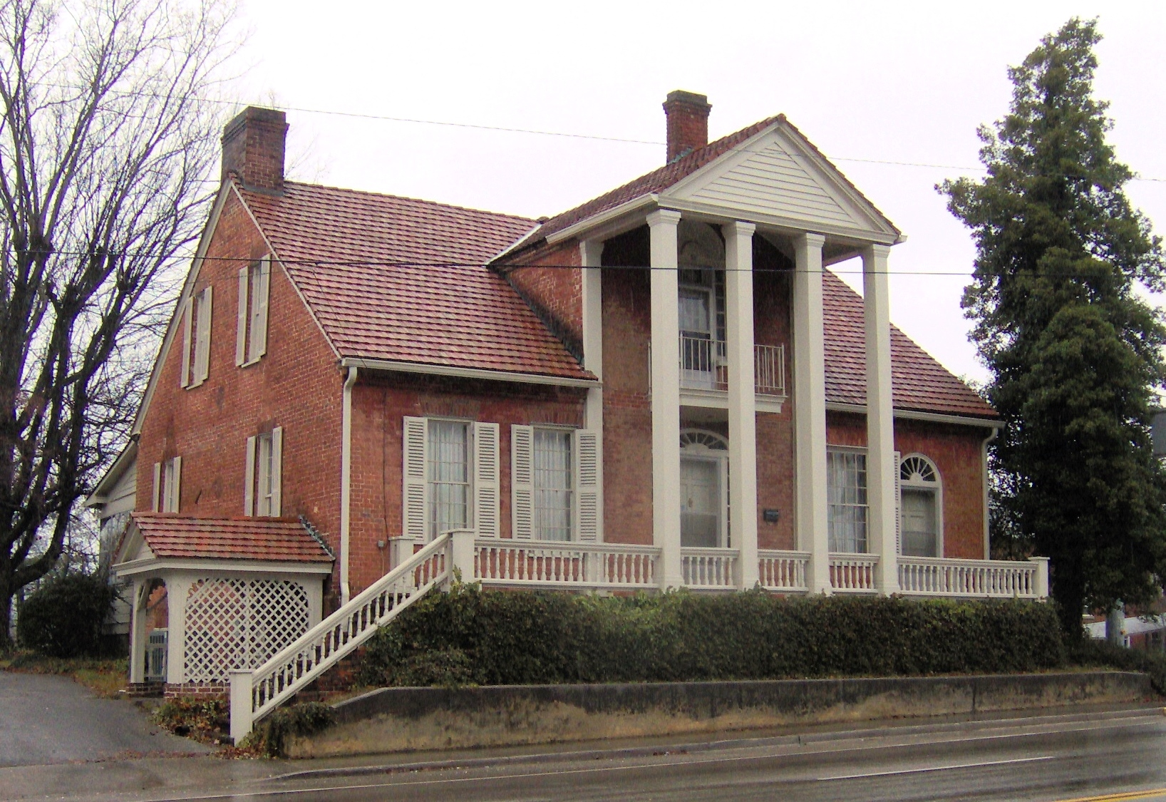 The Col. Gideon Morgan House in Kingston, Tennessee, USA. Morgan (1751-1830) was a Revolutionary War veteran and wealthy local merchant. He is buried in the nearby NRHP-listed Bethel Cemetery.